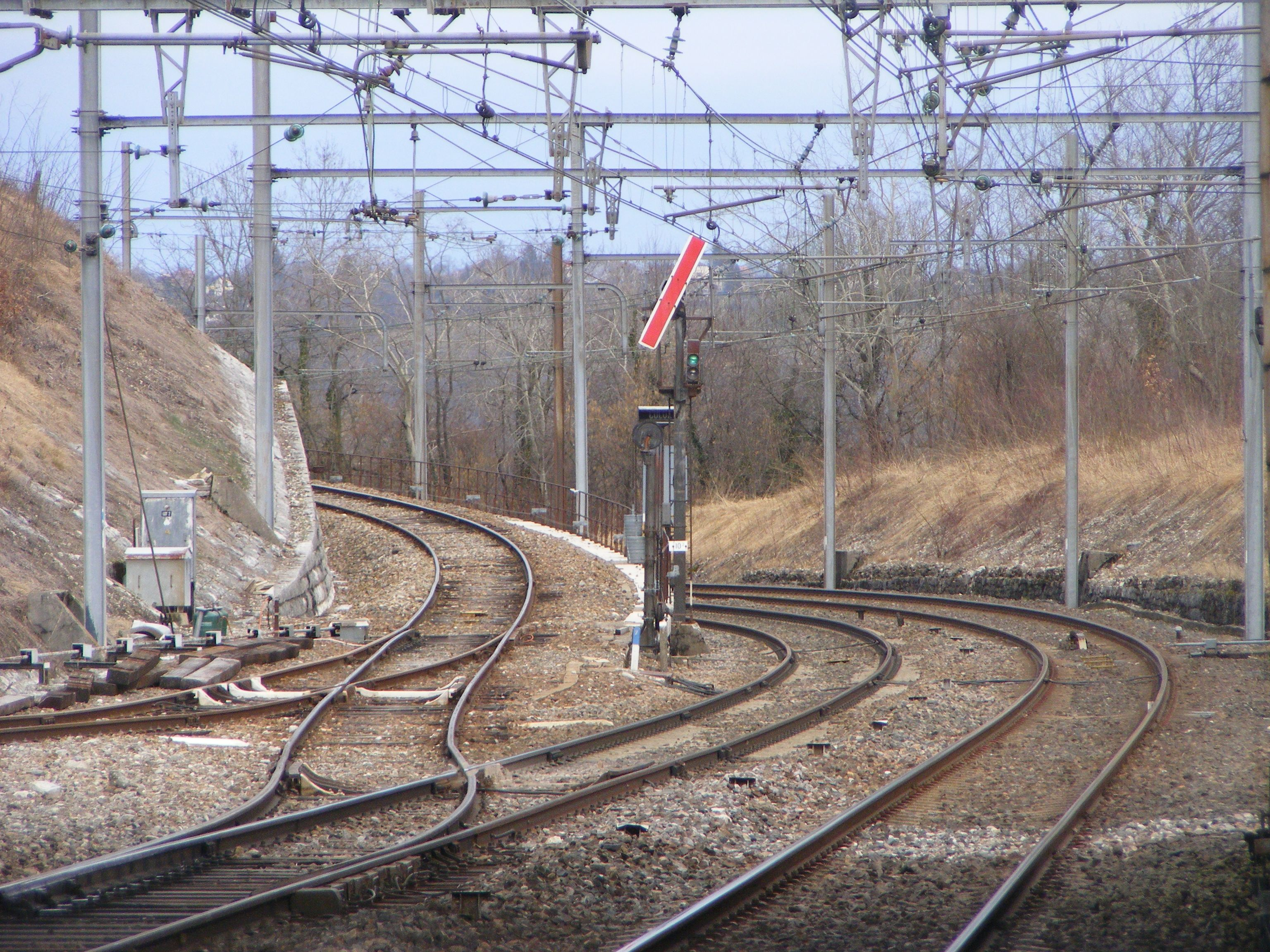 Collonges Fort l'Ecluse junction, starting point of the line to Divonne